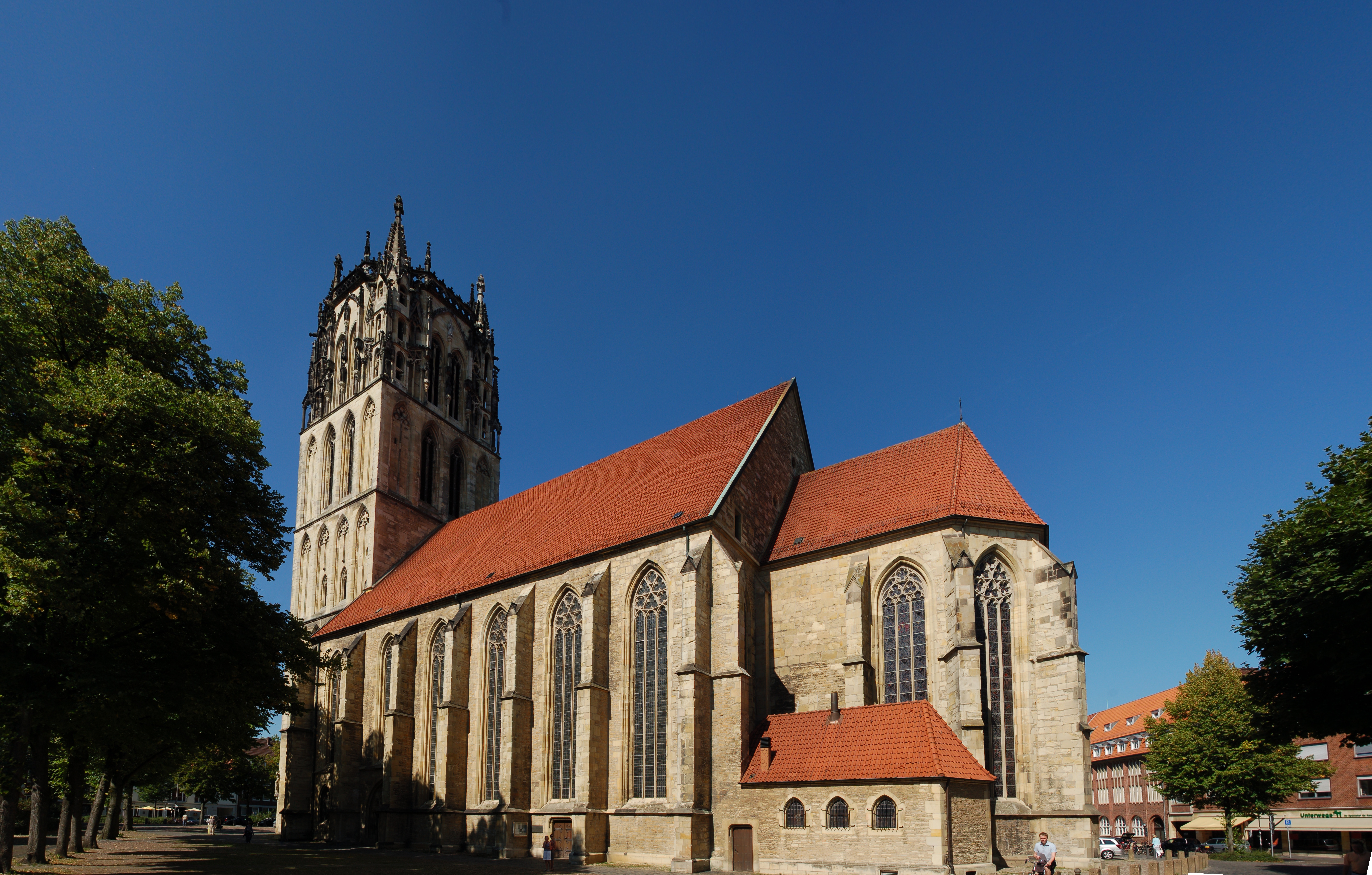 Panorama image (stof the Überwasserkirche in Münster